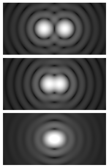 Two airy disks at various spacings: (top) twice the distance to the first minimum, (middle) exactly the distance to the first minimum (the Rayleigh criterion), and (bottom) half the distance. This image uses a nonlinear color scale (specifically, the fourth root) in order to better show the minima and maxima.